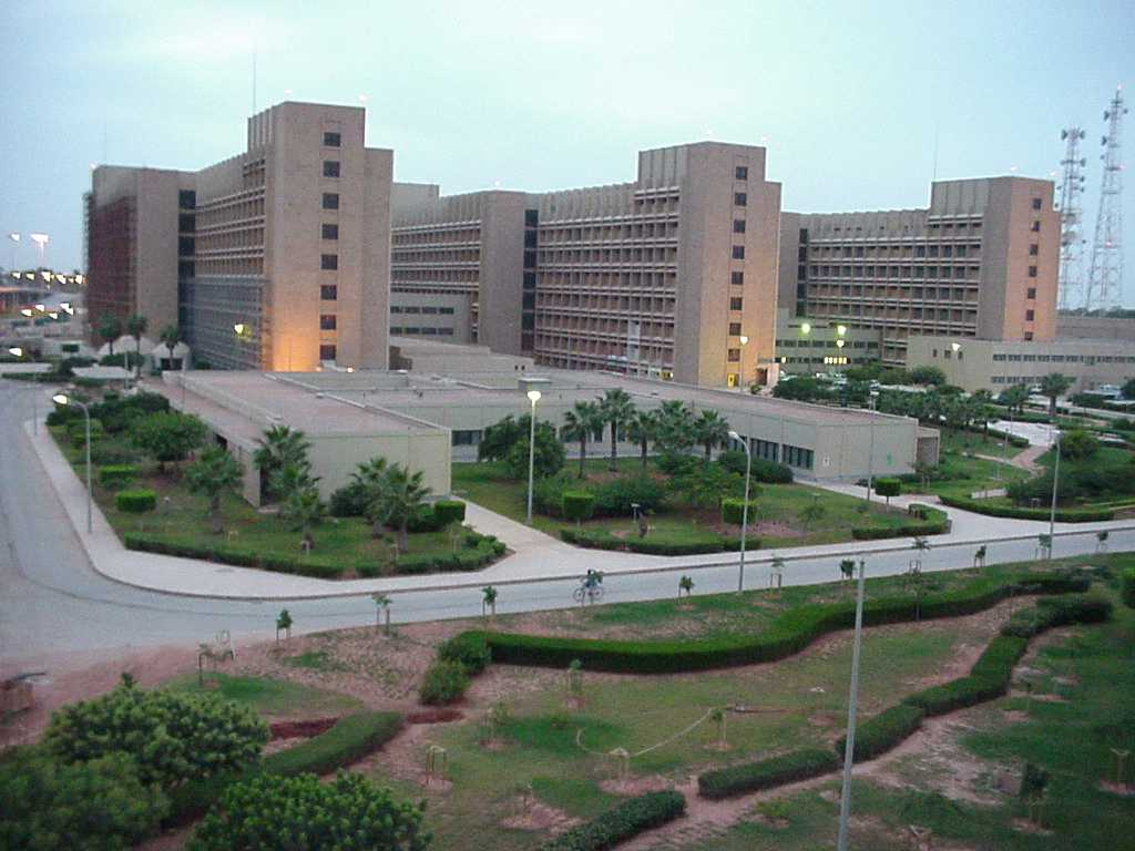 Benghazi medical center.